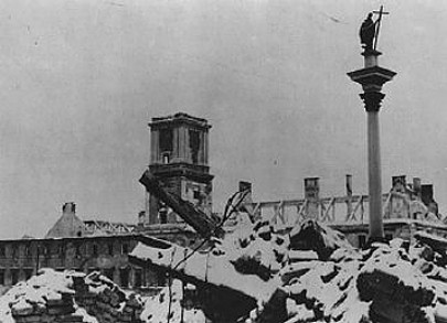 Plac Zamkowy and Royal Castle in Warsaw winter 1939